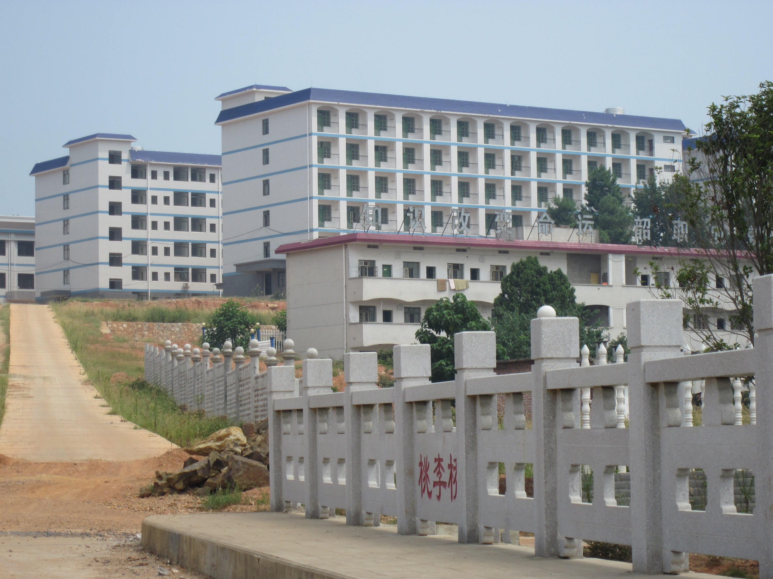 Shaoshan Vocational Technical Secondary School